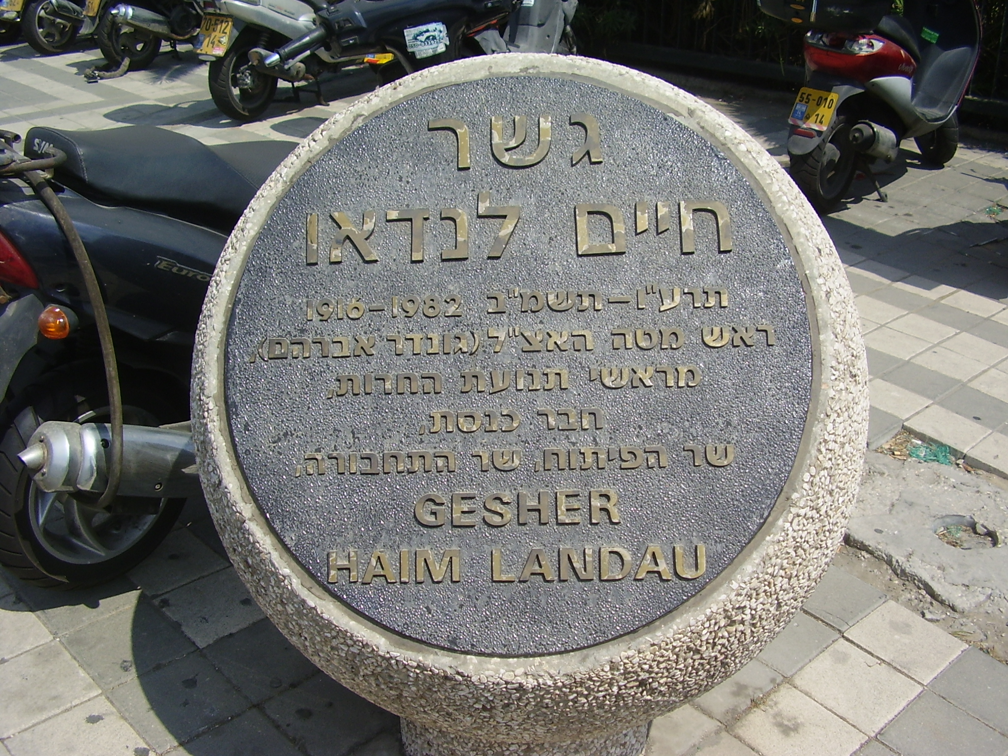 memorial plaque on haim landau bridge (gesher) in tel aviv לוח זיכרון ליד גשר חיים לנדאו מעל נתיבי איילון בתל אביב